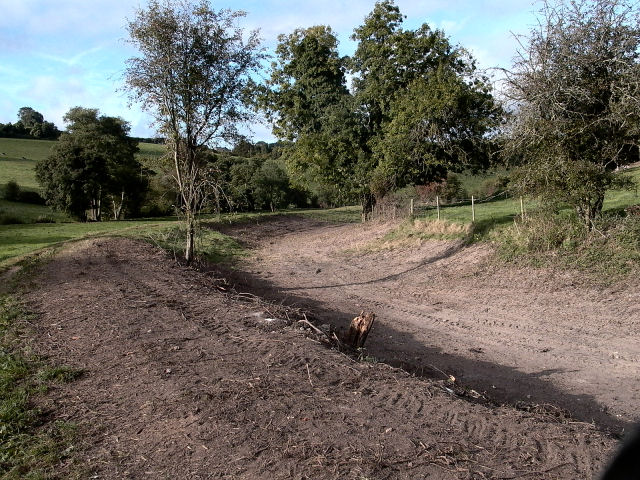 View of restored and cleared canal bed - west of recently excavated spillway drain - Upper Midford. The canal width may be gauged from the tractor tyre tracks on the upper banking.